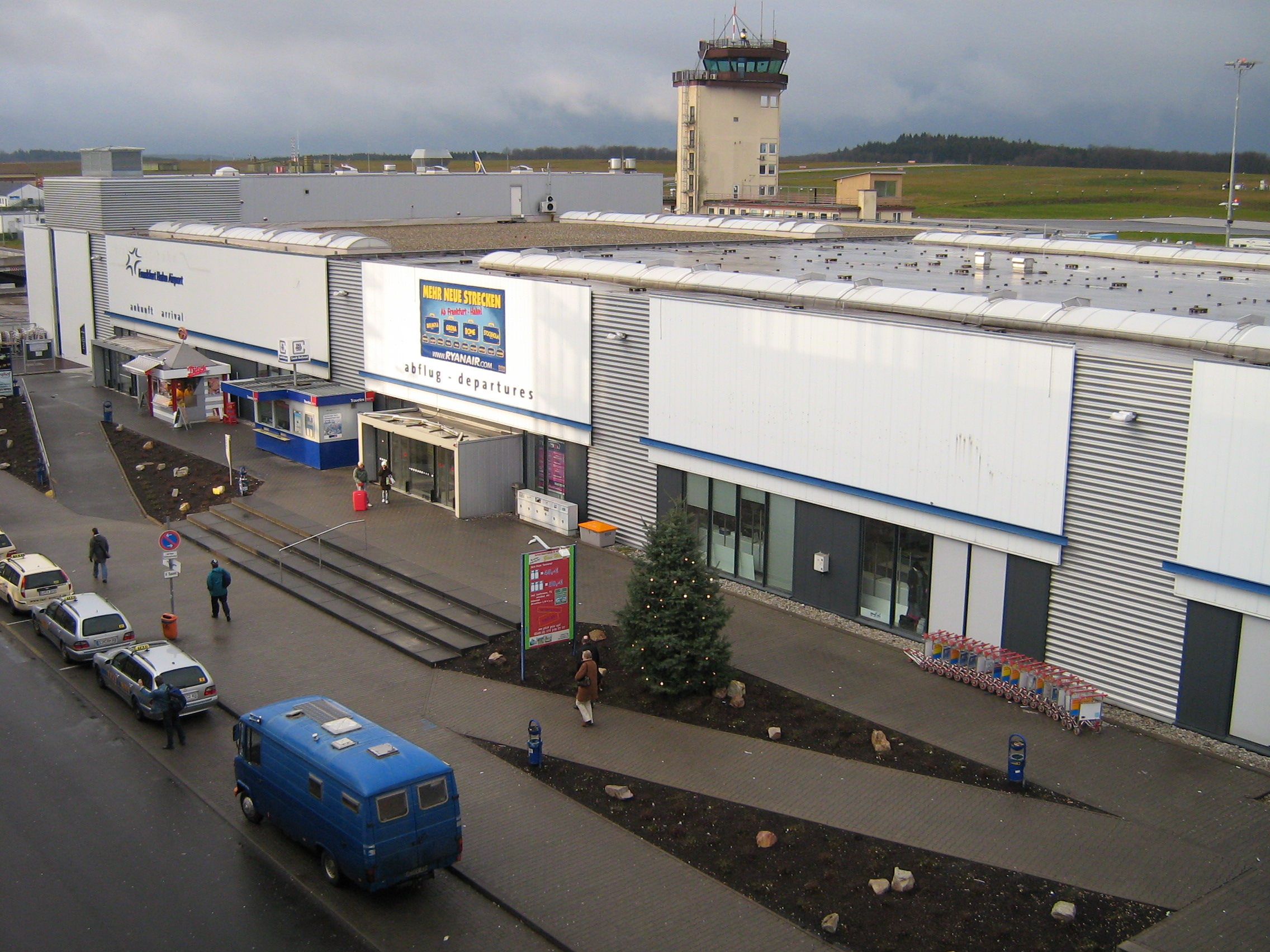 terminal 1 at frankfurt hahn airport